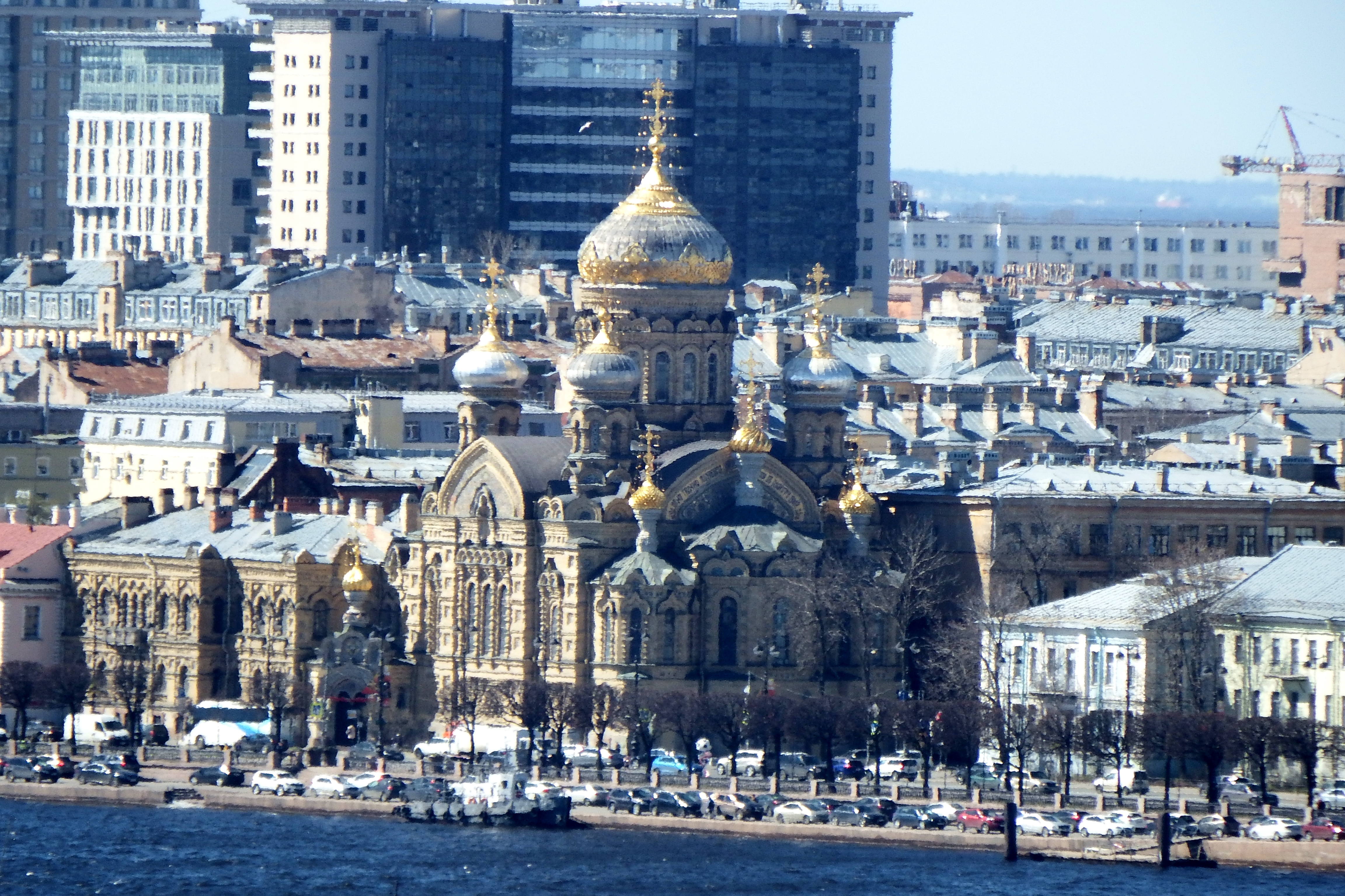 Church of the Dormition of the Theotokos (Optina Monastery town church), view from St. Isaac Cathedral